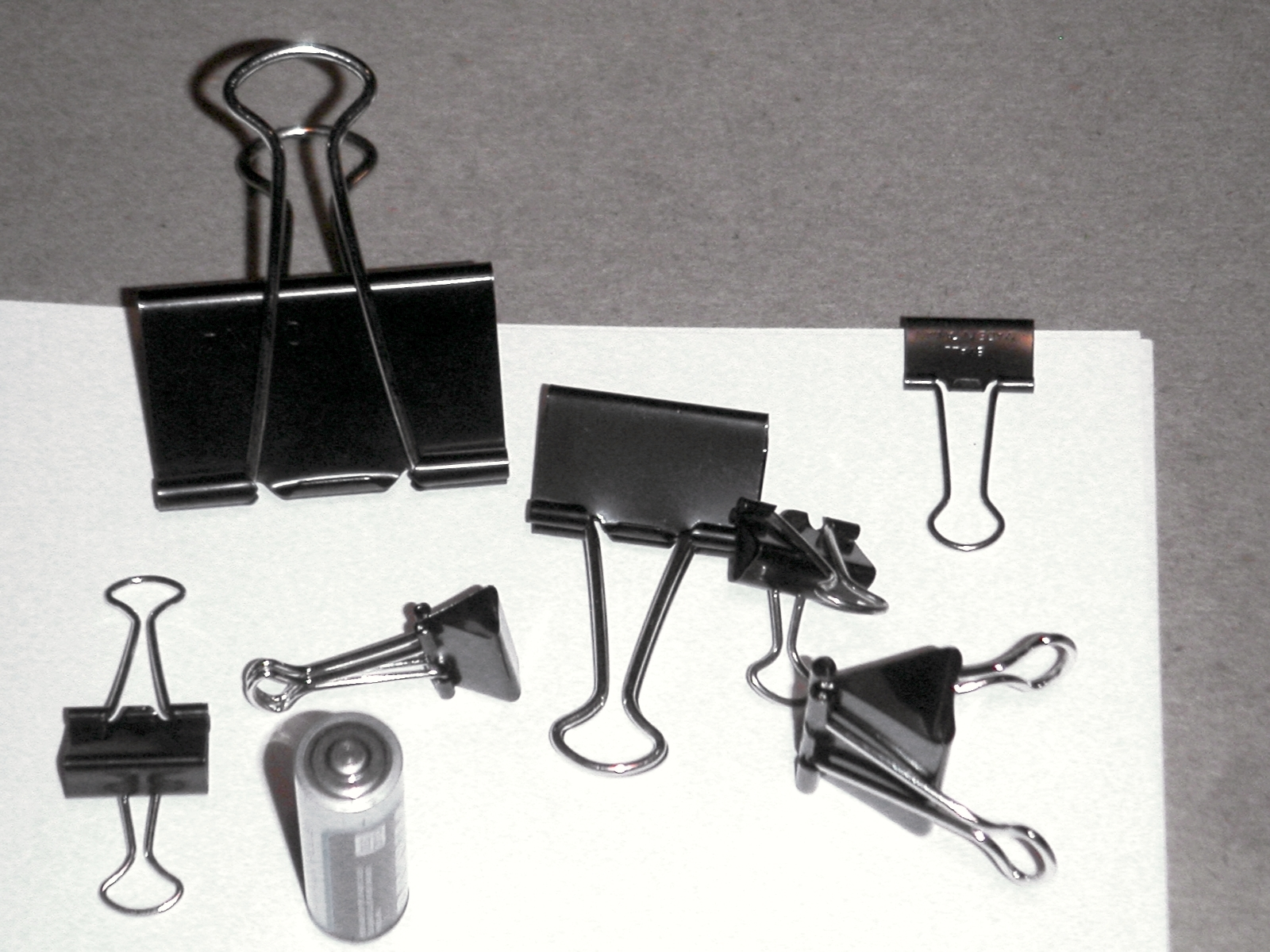 An assortment of binder clips, with a AA/LR6/Mignon size battery (50mm/2inch height, 14mm/0.55inch diameter) for scale.